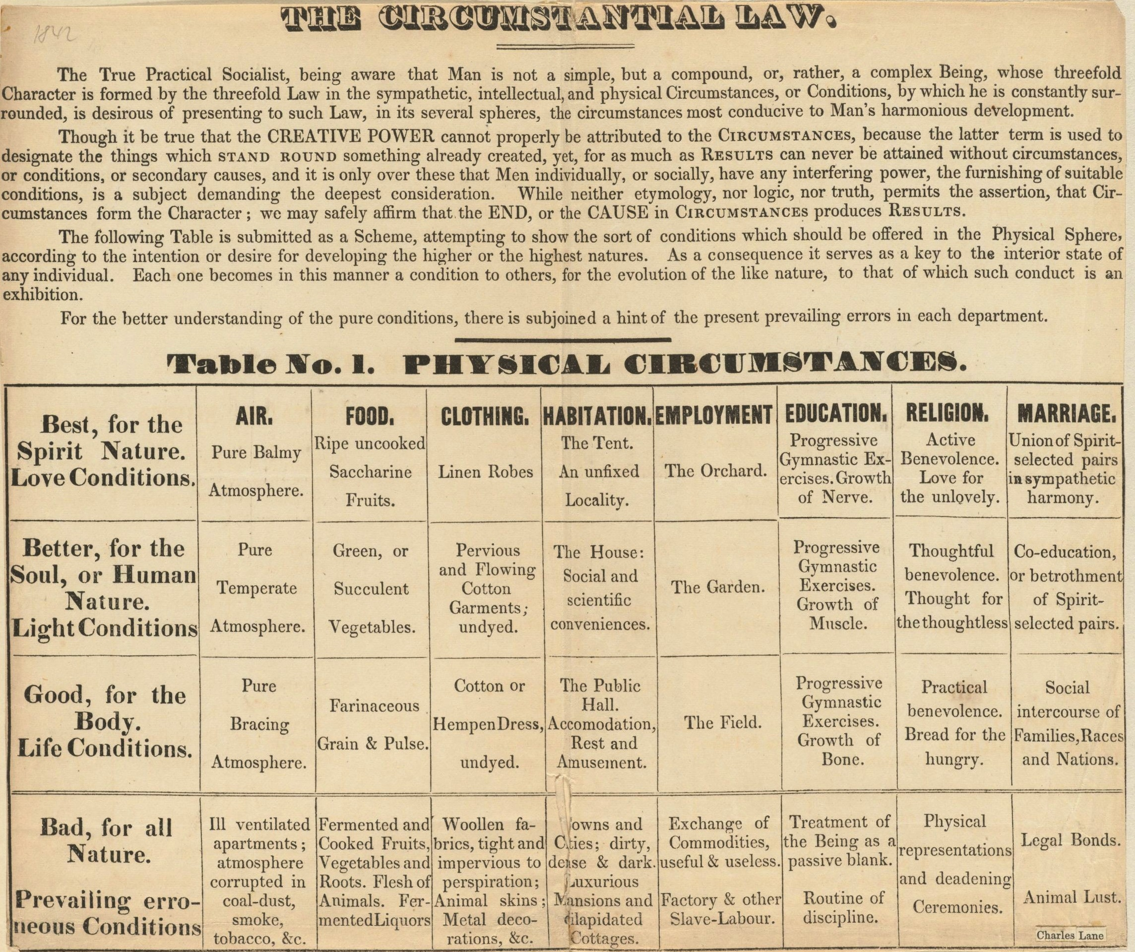 Autobiographical collections. Vol. V. 1840-1844. Concord. England. Concord. Harvard. 328f. Special contents: ephemera of J. P. Greaves and Charles Lane; Fruitlands materials